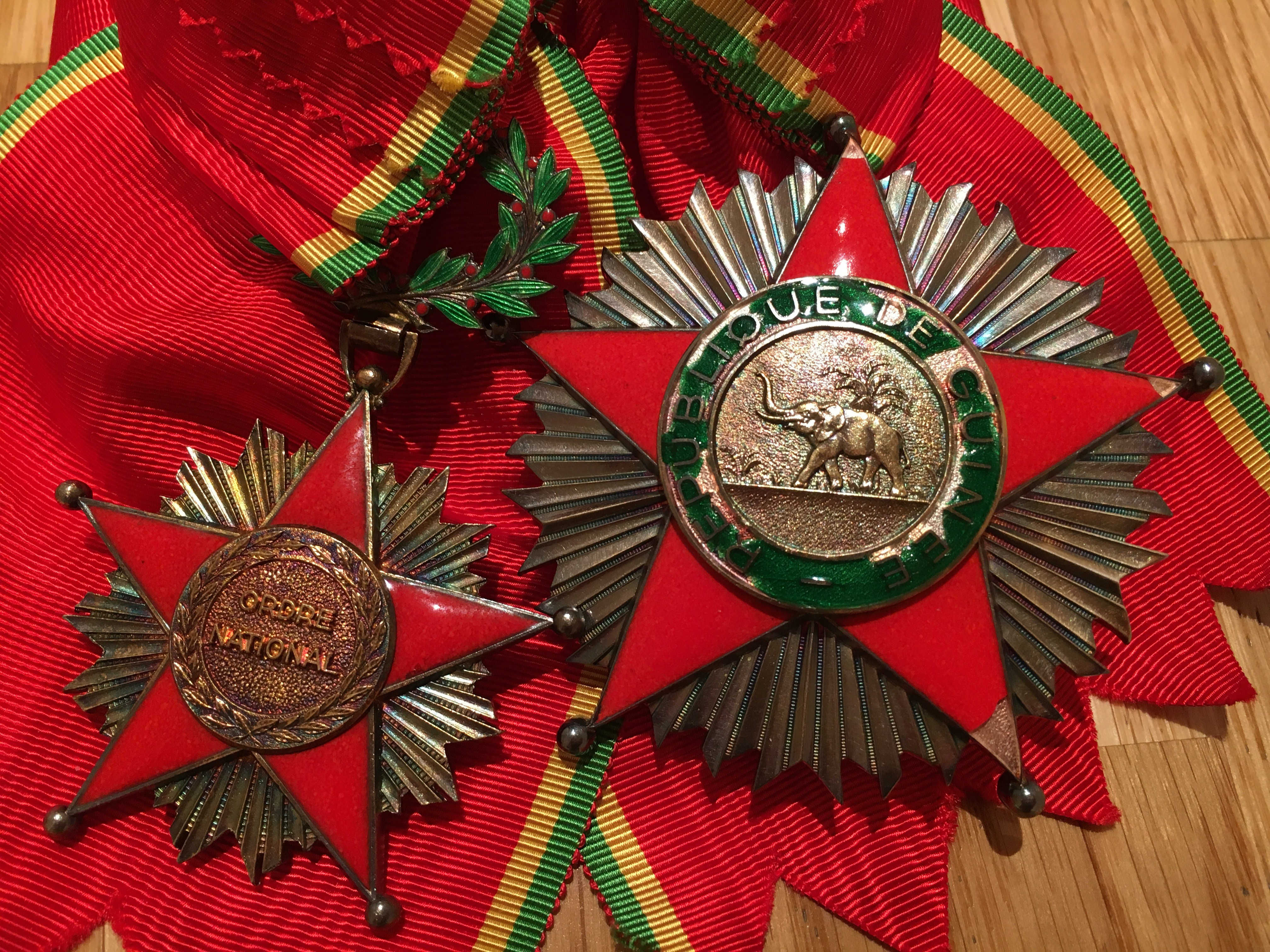 First type Grand Cross insignia of the National Order, Republic of Guinea. AEA Collections.